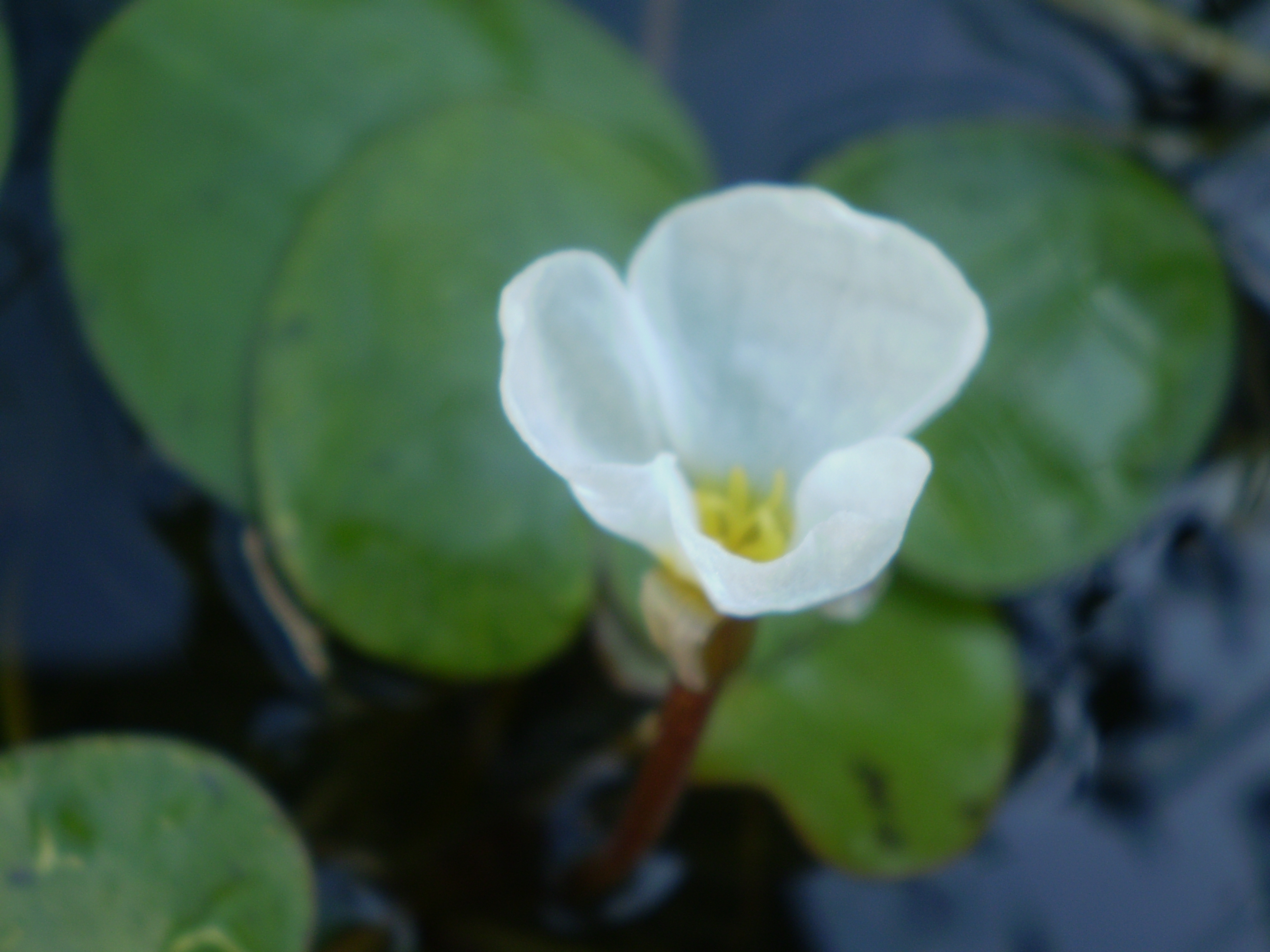 Hydrocharis dubia(Tochikagami)